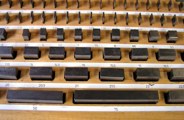 Set of calibration blocks